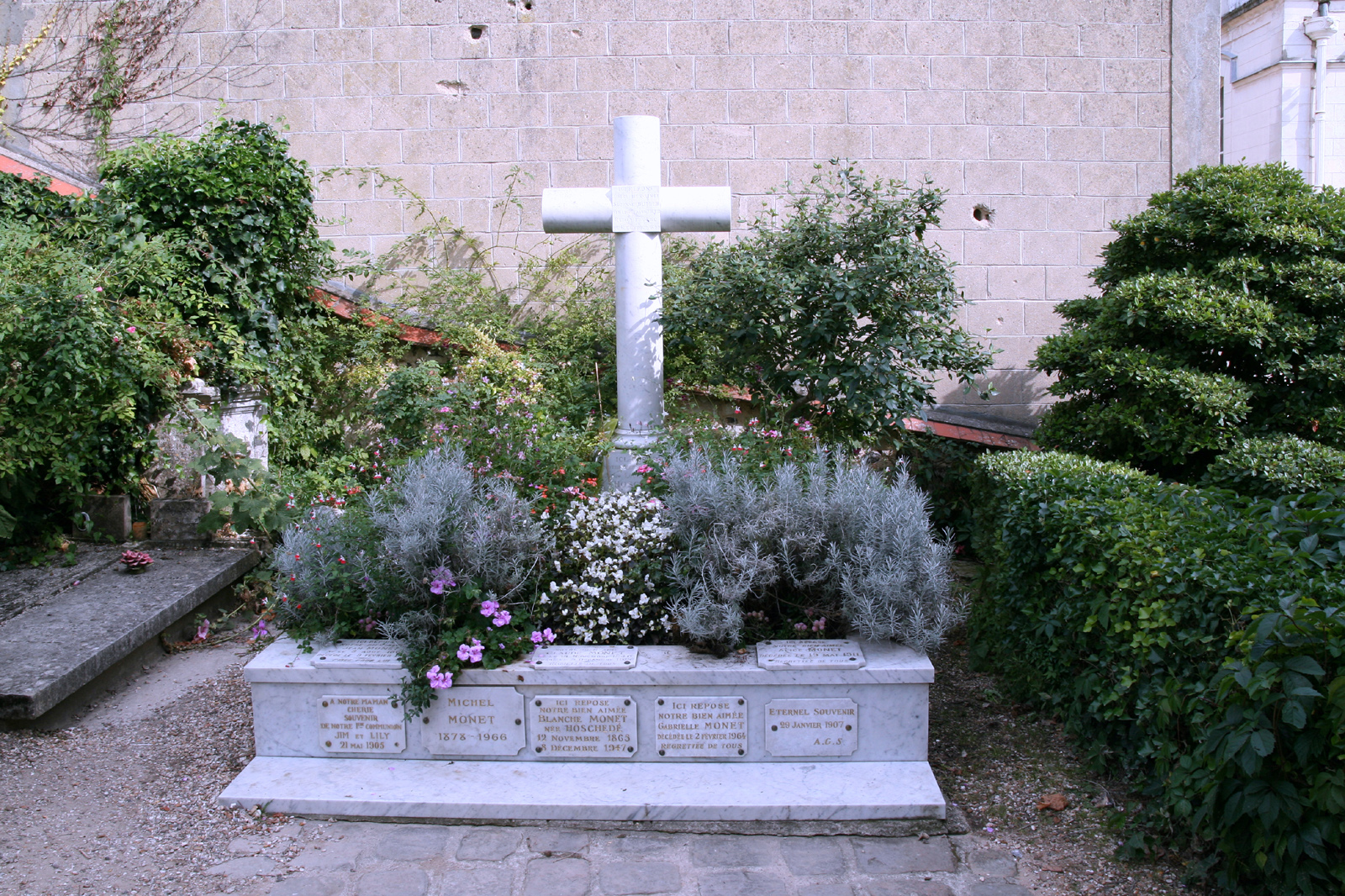 Giverny -Tombe Monet